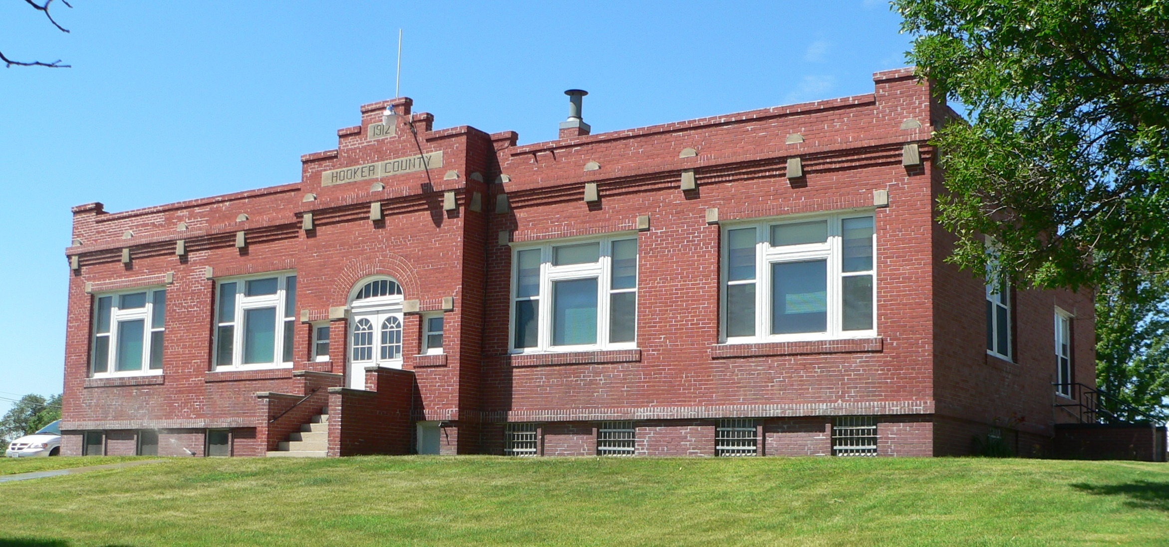 Hooker County Courthouse in Mullen, Nebraska; seen from the northeast. The building was constructed in 1912. It is listed in the National Register of Historic Places.